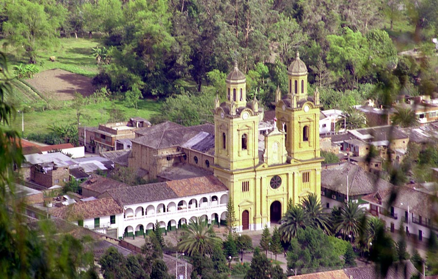 This is a scanned image of a 35mm negative of a picture taken of Jenesano, Boyaca, Colombia from the Alto de Rodriguez viewpoint in 1999. (Image was digitized in 2002).Dru007 03:24, 26 June 2007 (UTC) Dru007 03:29, 26 June 2007 (UTC) similar photos available for viewing at